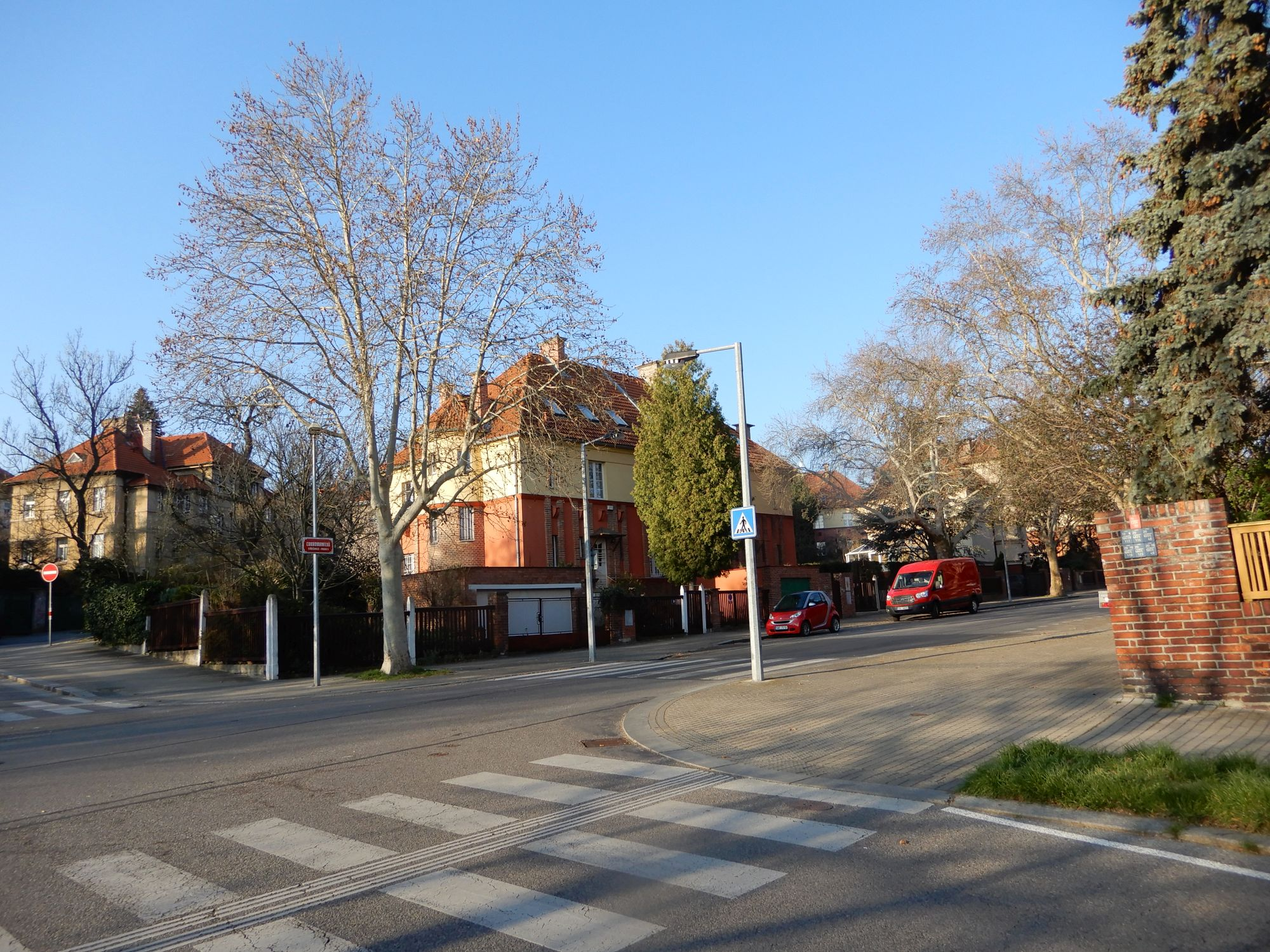 Crossing of Cukrovarnická and Západní streets in Střešovice